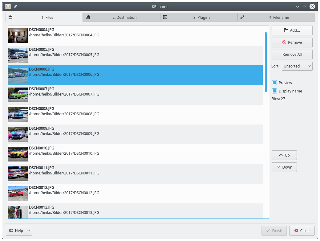 Main window of KRename with English interface